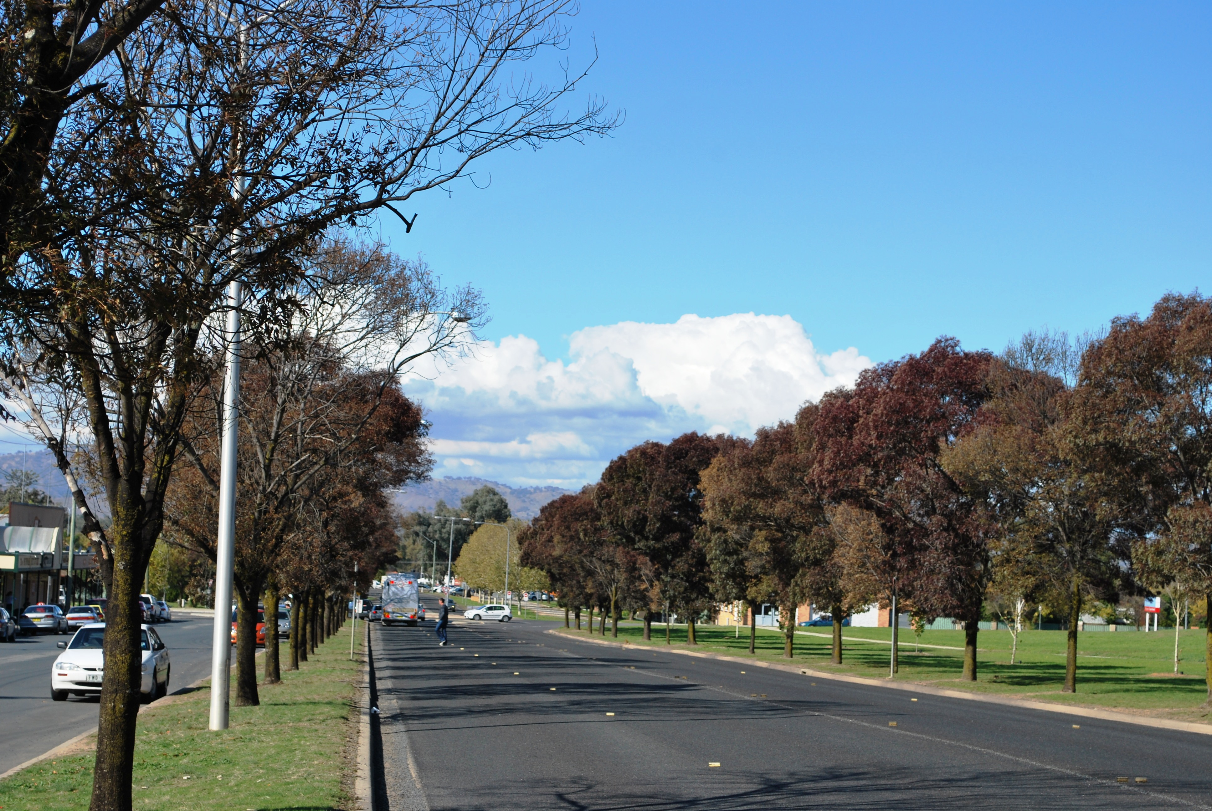 Borella Rd (Riverina Highway) at East Albury, New South Wales